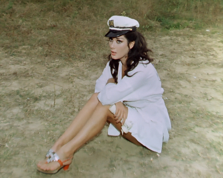 screenshot from the film Top Sensation (1968)